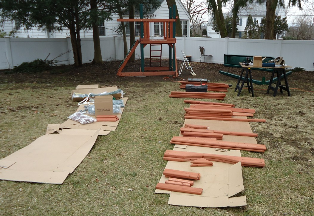 The main structure of the swingset & fort & sandbox and rope-climb and slide is in the center, assembled, but there are still multiple boards laid out, waiting to be assembled in this multi-faceted handyman project. There were literally hundreds and hundreds of different types of fasteners, including screws, carriage bolts, often requiring different drill bits and wrenches to install.